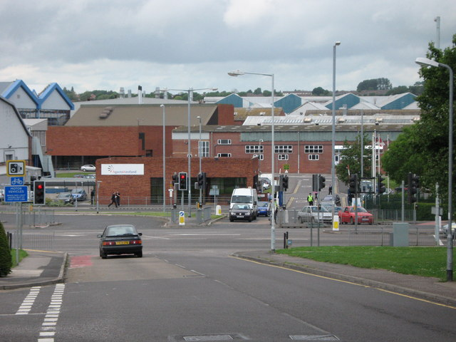 Westlands. Main entrance to Westlands factory in Yeovil.